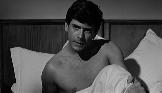 Screenshot from I delfini (1960)